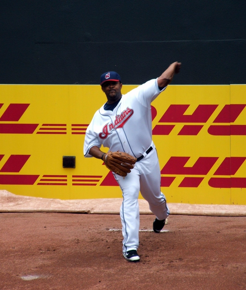 Cleveland Indians pitcher C.C. Sabathia